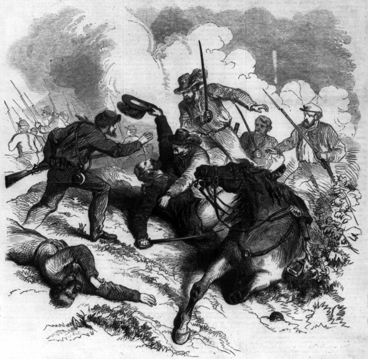 Battle of Wilson's Creek, near Springfield, Missouri, in the American Civil War. Illus. in: Frank Leslie's Illustrated Newspaper, 1861 Aug. 24.